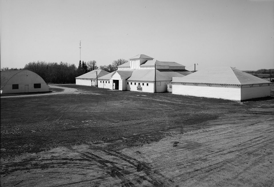 Livestock Pavilion at the Mahnomen County Fairgrounds in Mahnomen, Mahnomen County, Minnesota, United States. The fairgrounds comprise the Mahnomen County Fairgrounds Historic District, which is listed on the National Register of Historic Places.